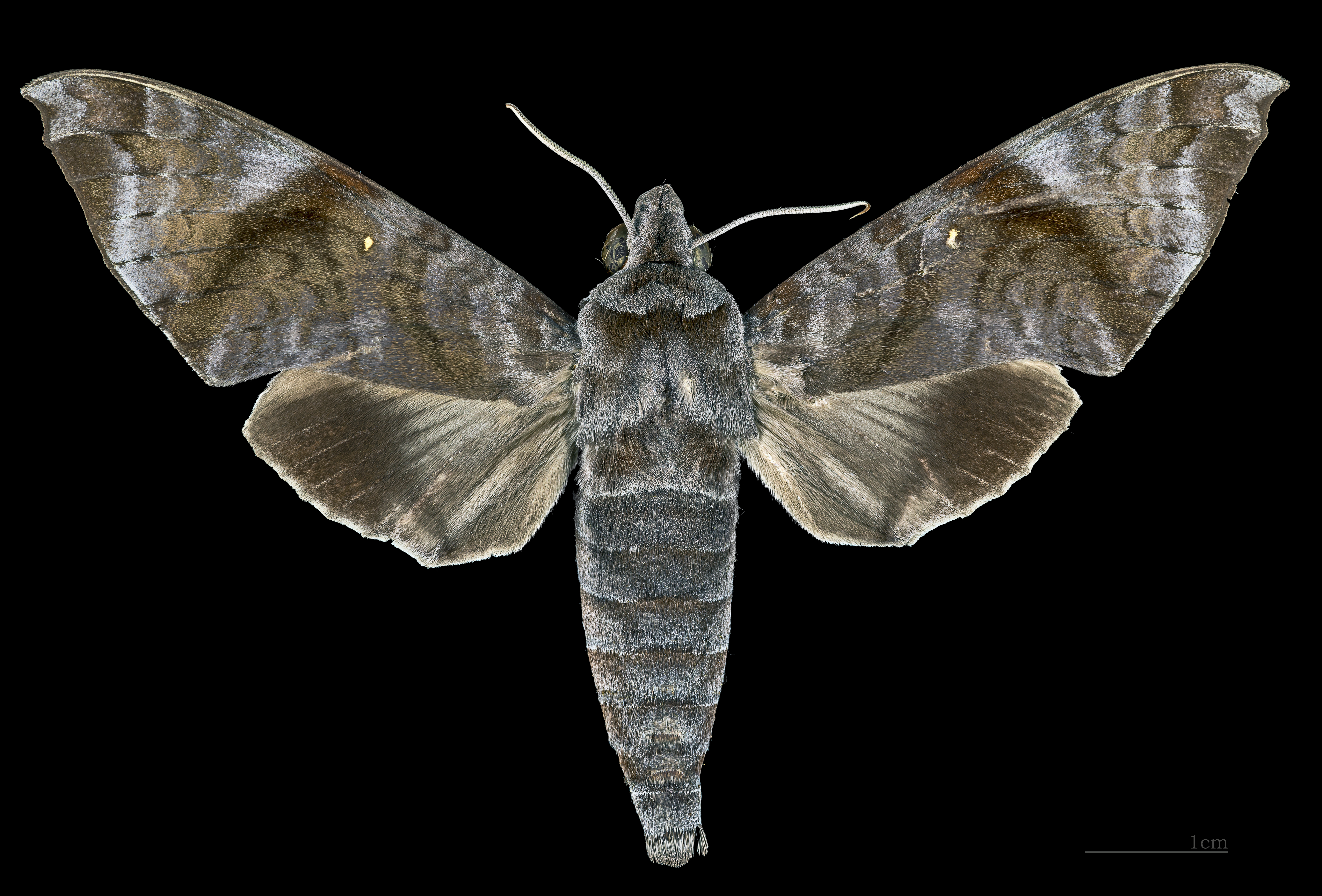 Acosmeryx shervillii - Dorsal side